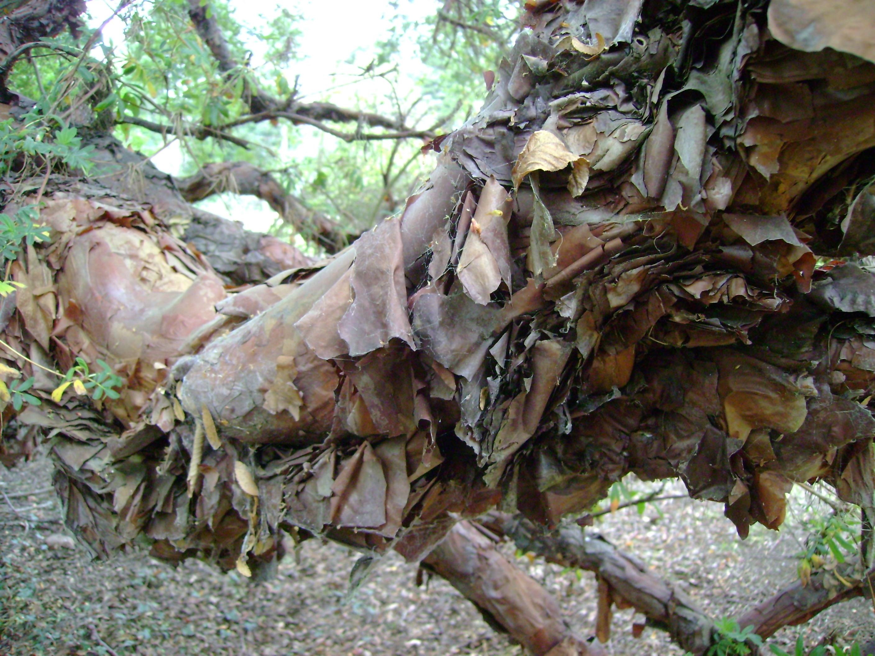 Polylepis australis trunk at Dundee Botanic Garden